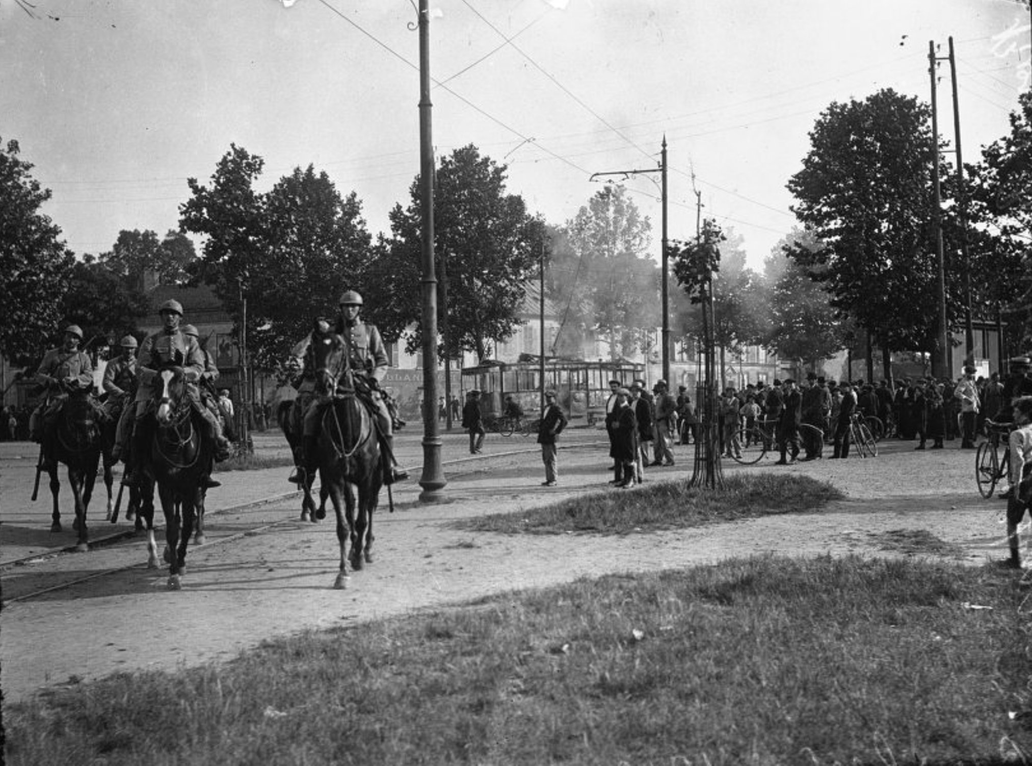 Strike of 1919 in France. Fire a light rail line St. Germain. Intervention of the troops on horseback.